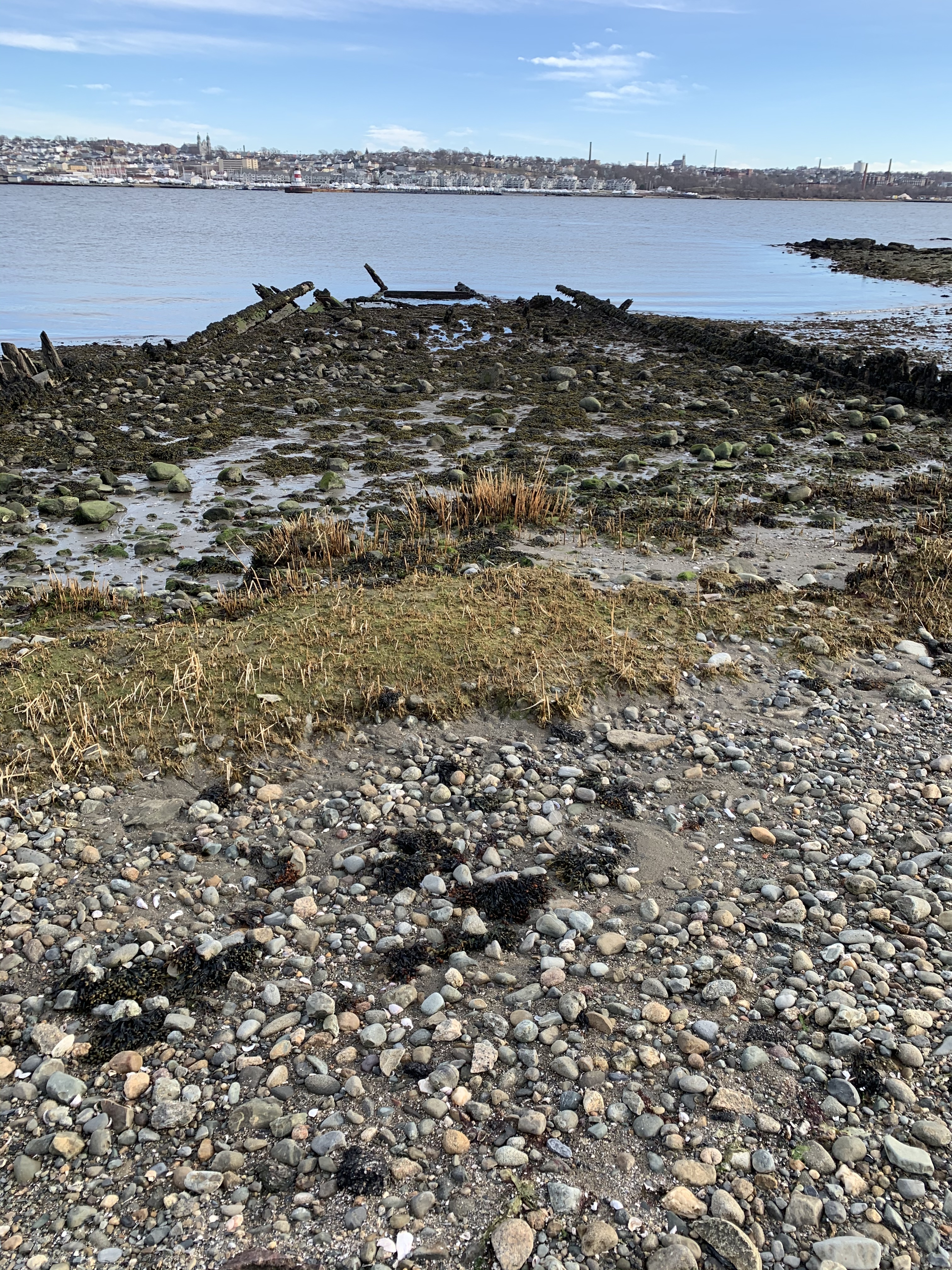 A view of the stern and inside of the wreck of the City of Taunton during low tide, at 5:00pm, March 14 2020.